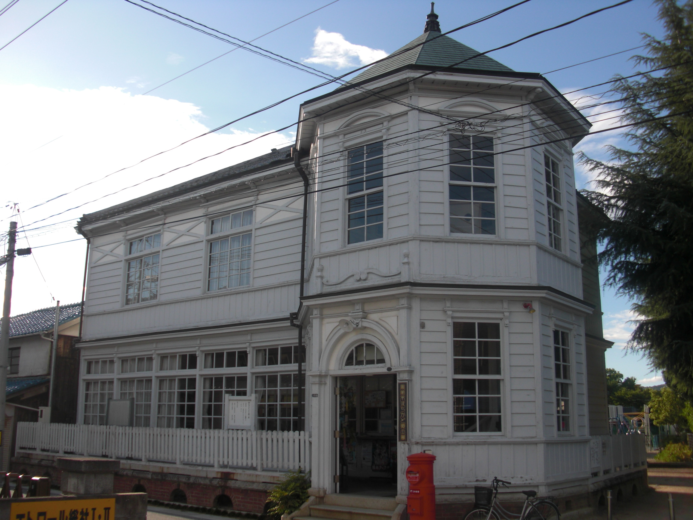 This is the former Soja police office and now it is used for Soja City Town Corner Hometown Building.